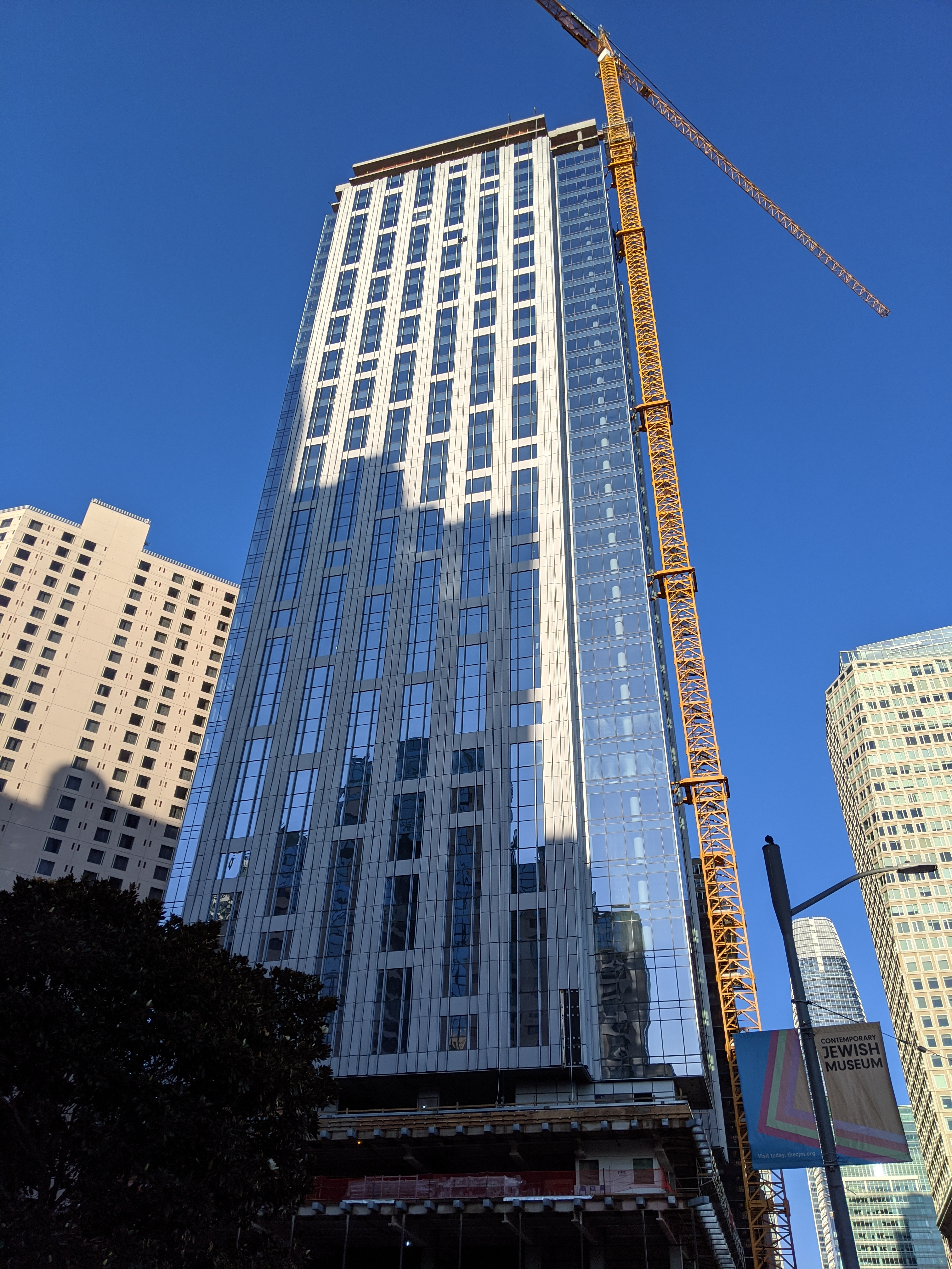 building